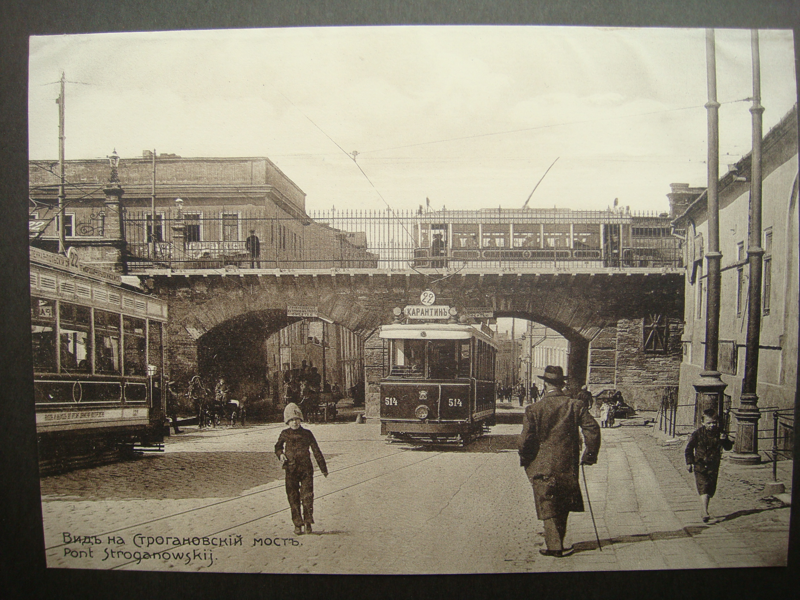 This is photo view of Odessa from Souvenir Photo Album published in Odessa circa early XX century.